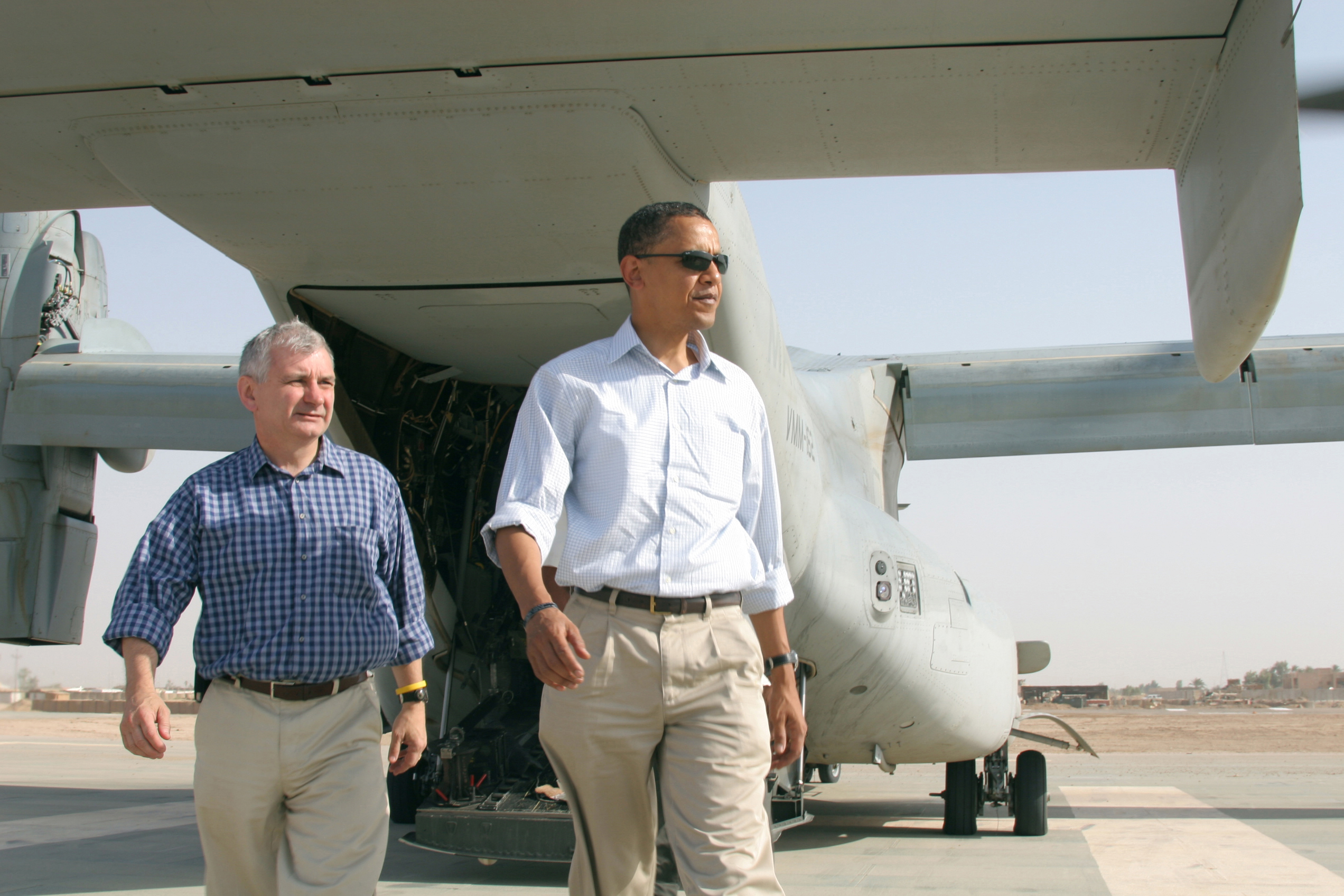 Senators Barack Obama (D-IL) and Jack Reed (D-RI), exit an MV-22 Osprey during the congressional delegates visit to al Anbar province, Iraq. Marine Medium Tiltrotor Squadron 162, Marine Aircraft Group 16, 3rd Marine Aircraft Wing (Forward), transported Obama, Reed, and Sen. Chuck Hagel (R-Neb) to several stops throughout the province.